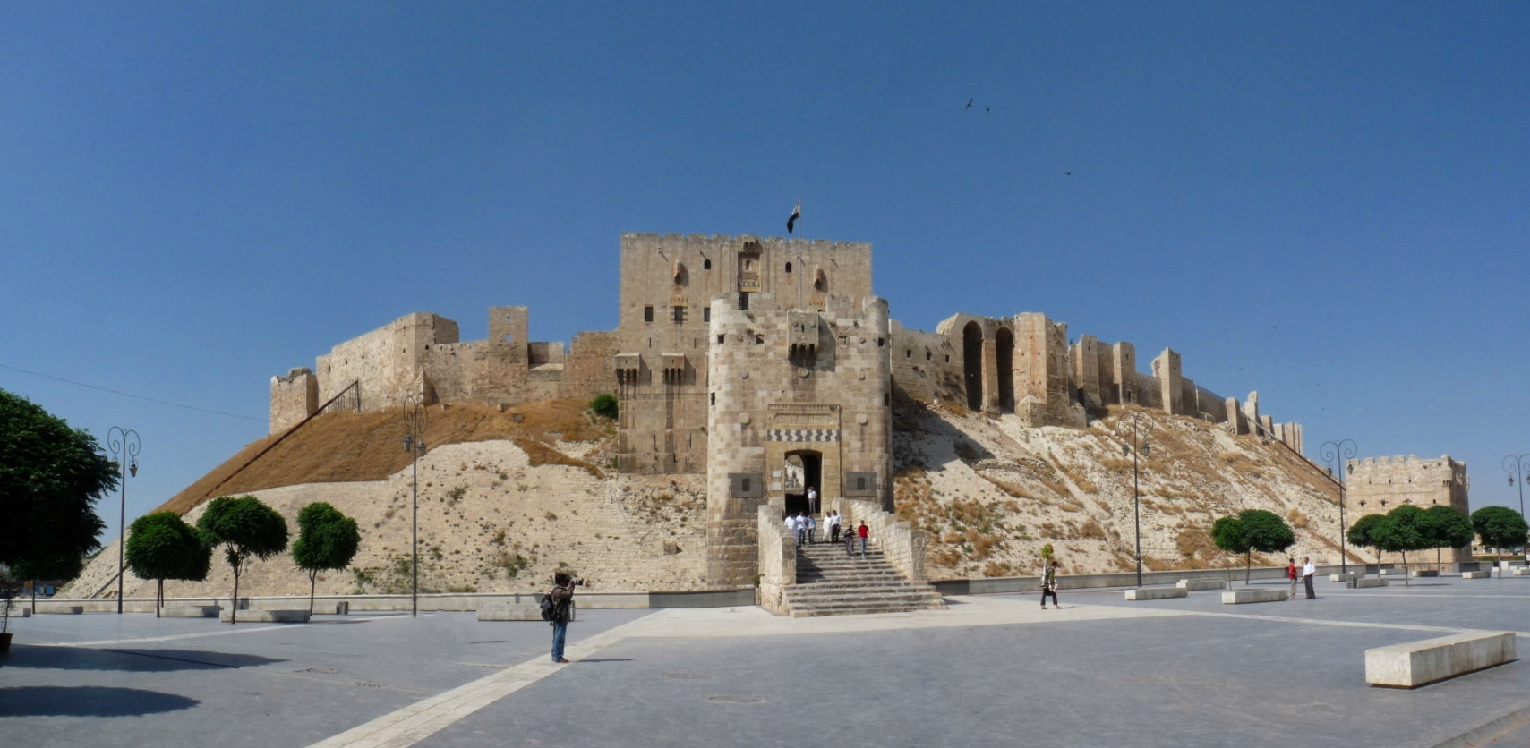 Frontal view on the Citadel of Aleppo